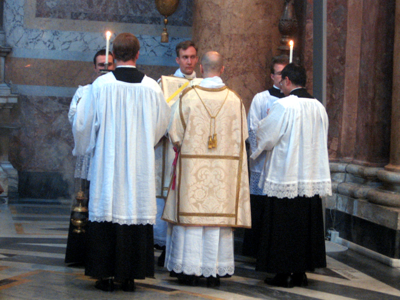 Tridentine High Mass: Gospel reading